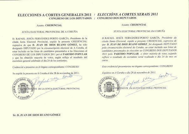 Credenciales de las Cortes Generales 2011